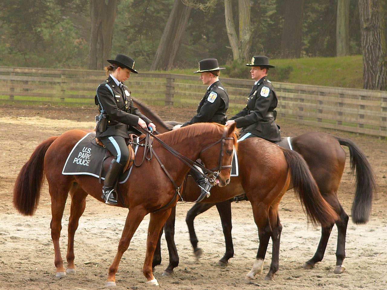 U.S. Park Police, Mounted officer graduation, in Presidio of San Francisco